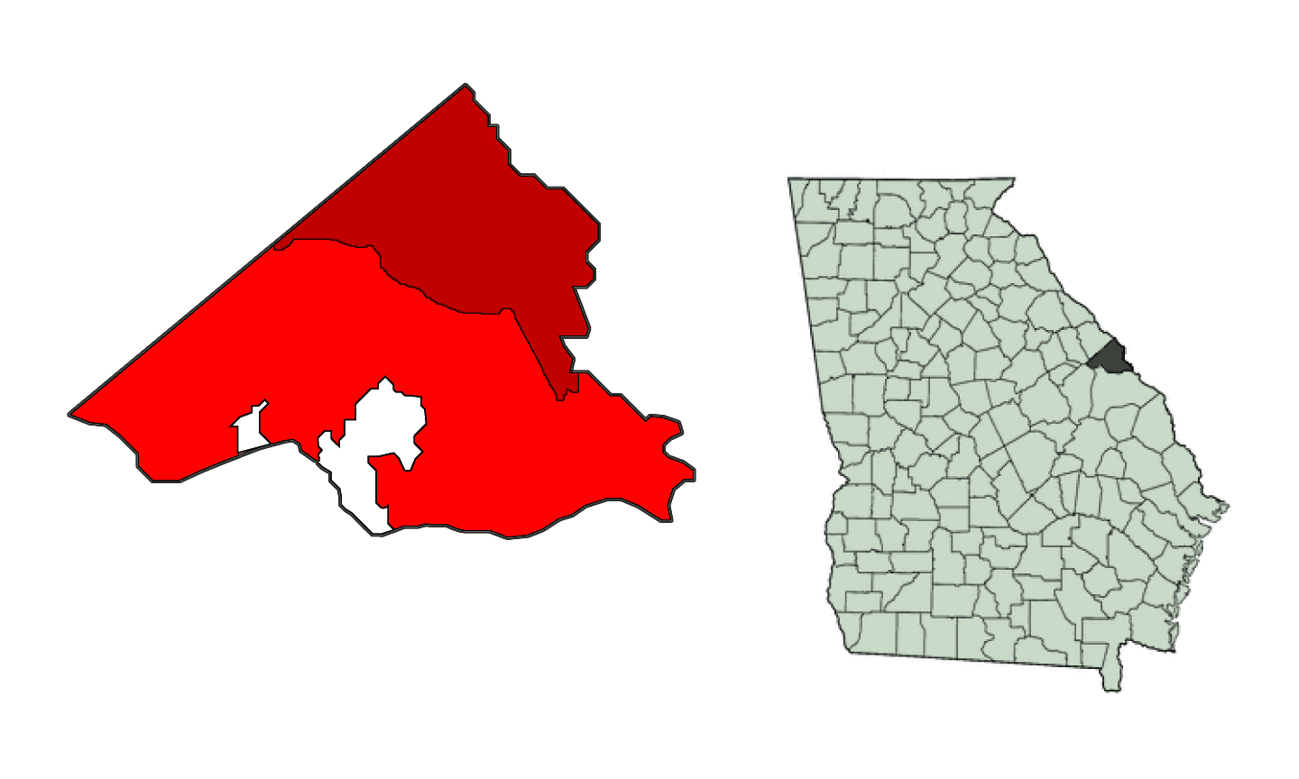 Made using US Census Bureau Data. Map showing location and area of Augusta, Georgia, both identifyig the original city limits and the city limits that resulted from the merge of the city with Richmond County, Georgia. Summary Made using US Census Bureau Data. Map showing location and area of Augusta, Georgia, both identifyig the original city limits and the city limits that resulted from the merge of the city with Richmond County, Georgia. Licensing 10:32, 26 March 2006 FuriousFreddy 1440x864 (91874 bytes) 10:22, 26 March 2006 FuriousFreddy 1440x864 (91816 bytes) (Made using US Census Bureau Data. Map showing location and area of Augusta, Georgia , both identifyig the original city limits and the city limits that resulted from the merge of the city with Richmond County, Georgia .)